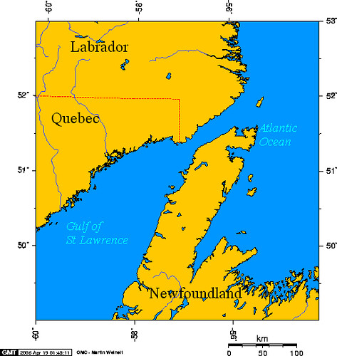 Newfoundland and Labrador Map showing the Gulf of St Lawrence and the Atlantic Ocean